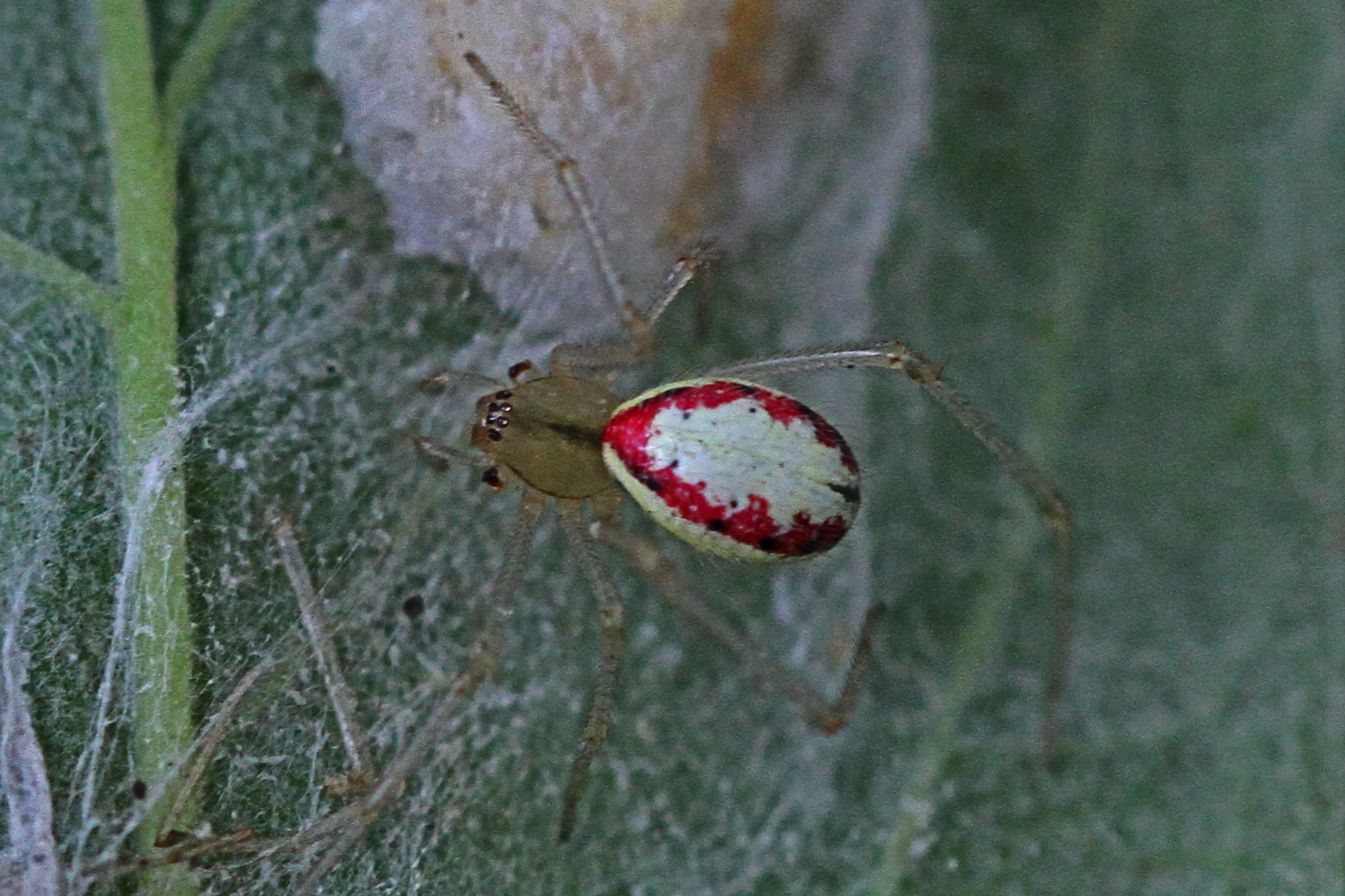 Cobweb Spider - Enoplognatha ovata, Nelson Park, Vancouver, British Columbia